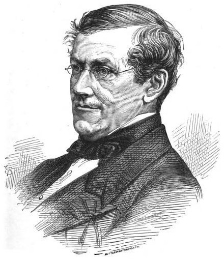 sketch of Sir Charles Wheatstone